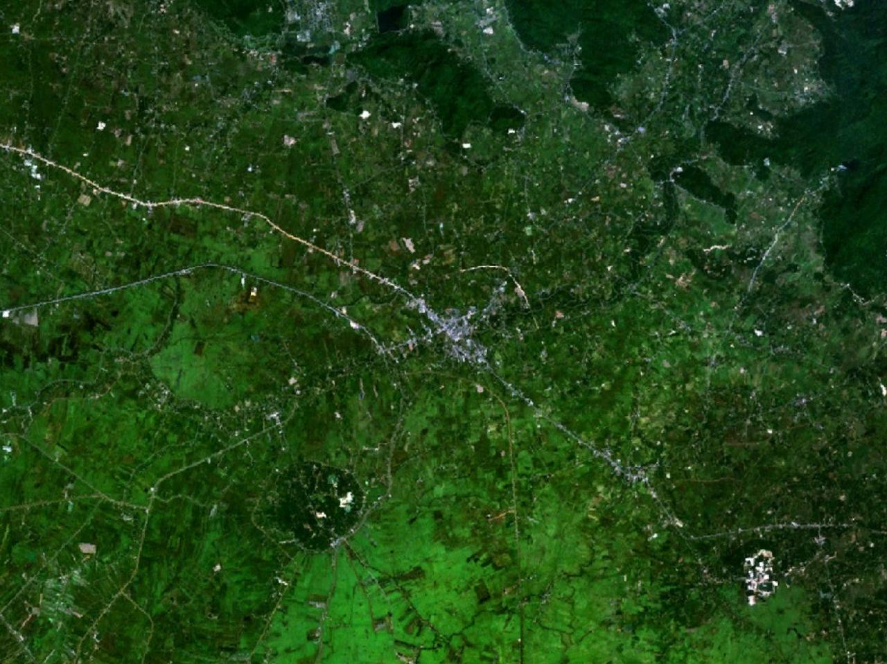 Nakhon Nayok, Thailand. Satellite view.